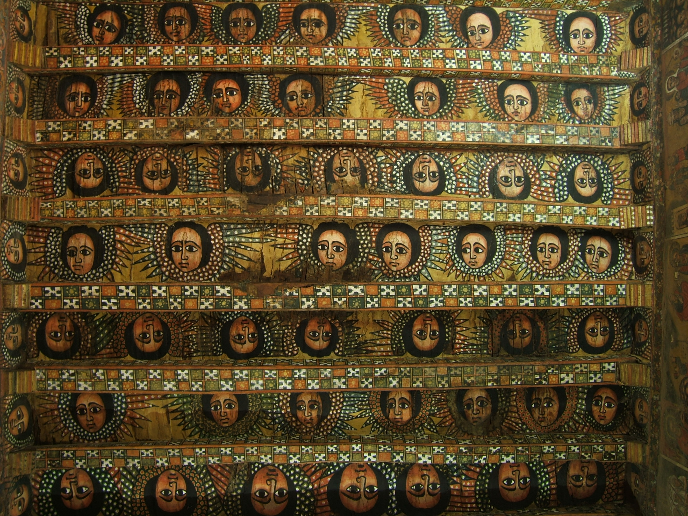 Roof of Debre Berhan Selassie Church in Ethiopia